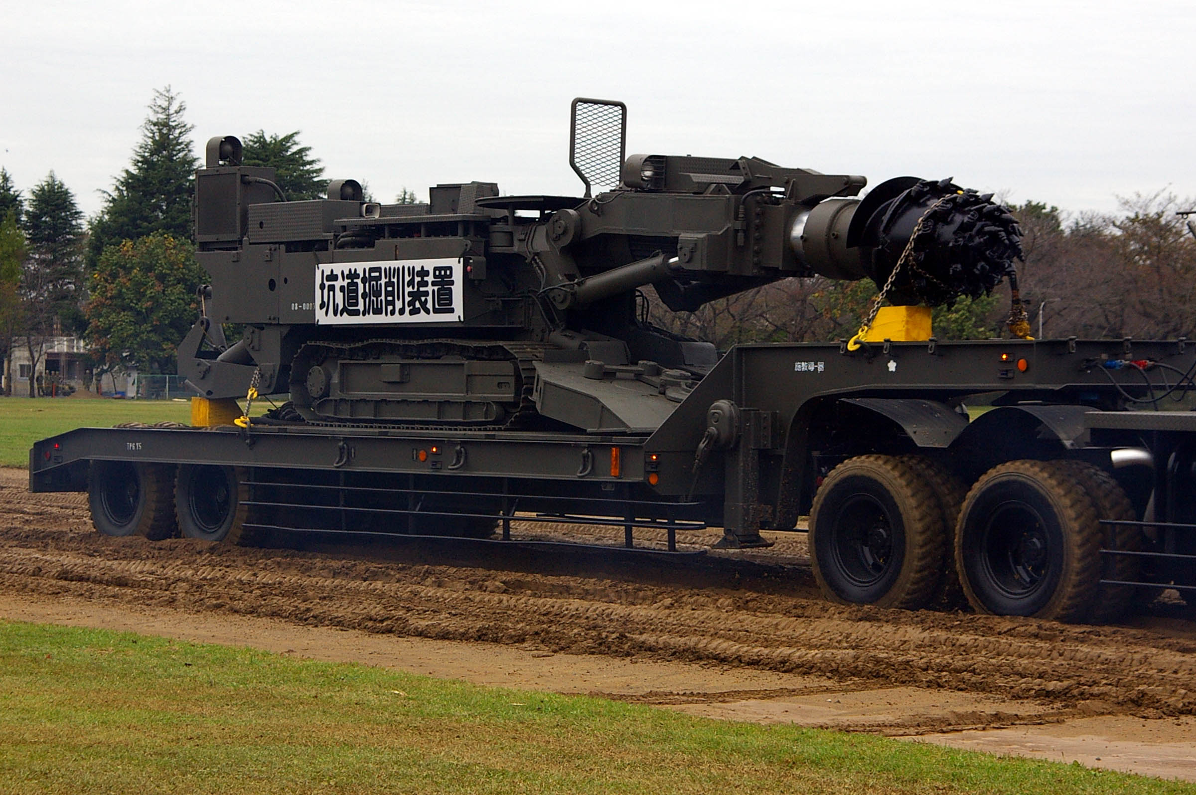 JGSDF_Tunnel_digger.Taken by Los688,at Camp Katsuta,25-Oct-2008.PD-self